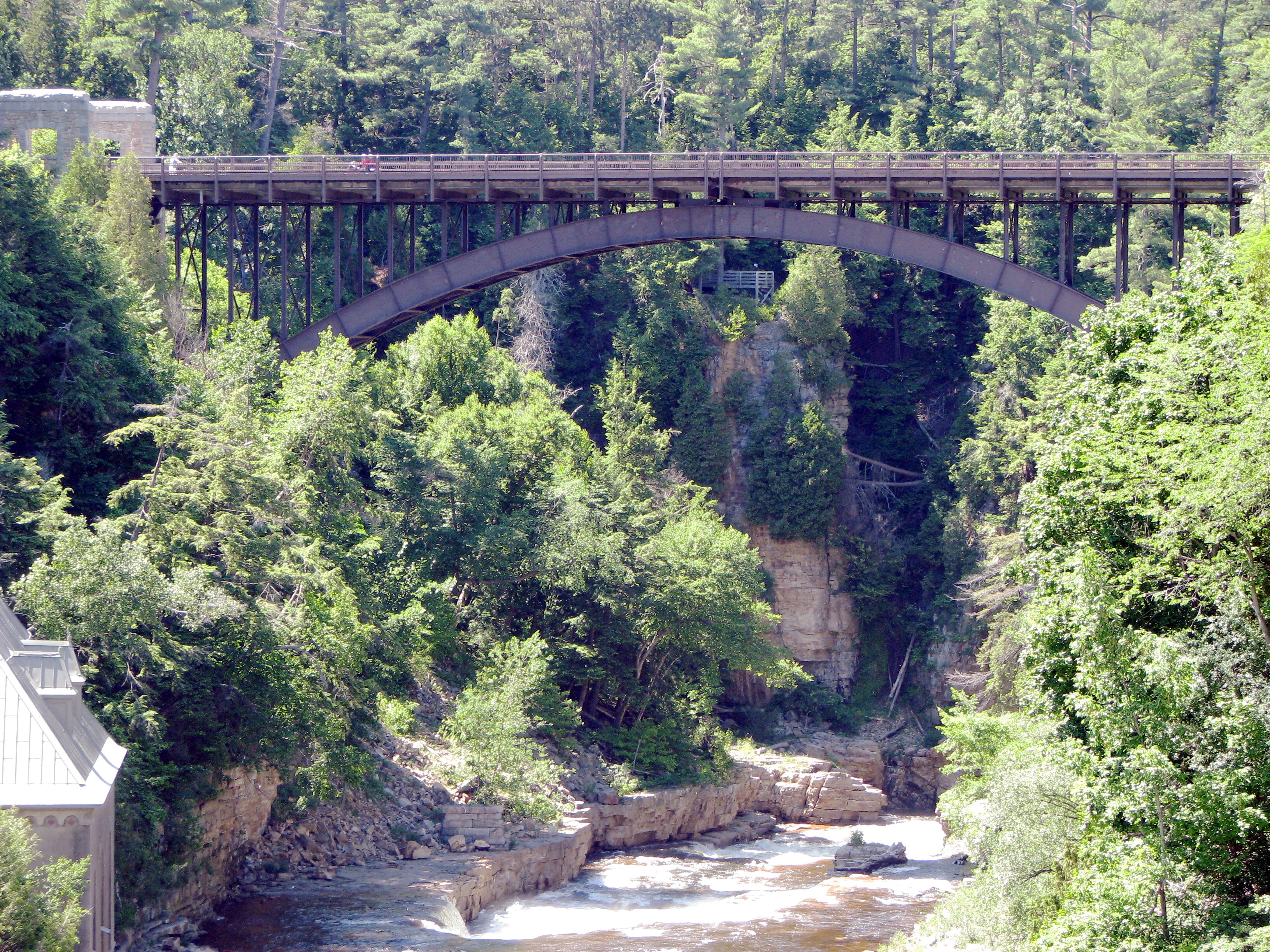 NY Route 9 Bridge over the Ausable Chasm, Clinton County, New York